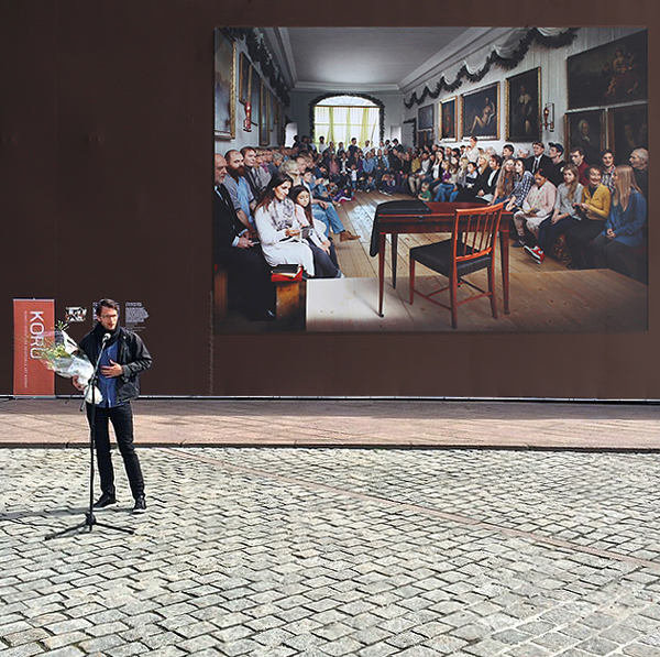 From the opening of "Et riksportrett (etter Eidsvold 1814)" / "A Portrait of a Nation (after Eidsvold 1814)" at Oslo Central Station 10 May 2014. The artist Trond Hugo Haugen in front. In the background the photograph showing 112 people in the assembly room at Eidsvoll Verk in 2014, in the same room where the Norwegian constitution was formulated and adopted. The photograph is part of the art project "A Portrait of a Nation" by artist Trond Hugo Haugen and based on the painting "Eidsvold 1814" (1885) by Oscar Arnold Wergeland (1844-1910). The painting was donated to the Norwegian Parliament building in Oslo in 1885 where it still hangs in the main hall.